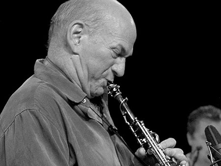 Dave Liebman